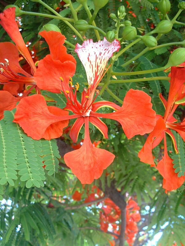 Royal Poinciana (Delonix regia), flower. - Photographed on 30th May 2004 outside the church of Santo Domingo in Oaxaca, Oaxaca, Mexico, by Stephen Lea. Identified by comparison with many images on the web and descriptions.